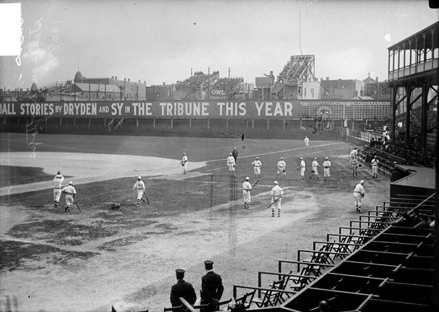 Chicago Cubs warming up at West Side Grounds, 1908